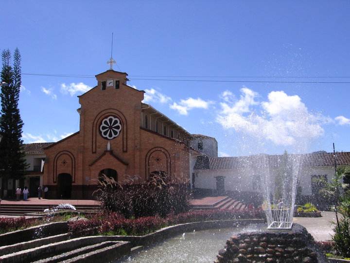 Church catolic principal of municipality of Alejandria